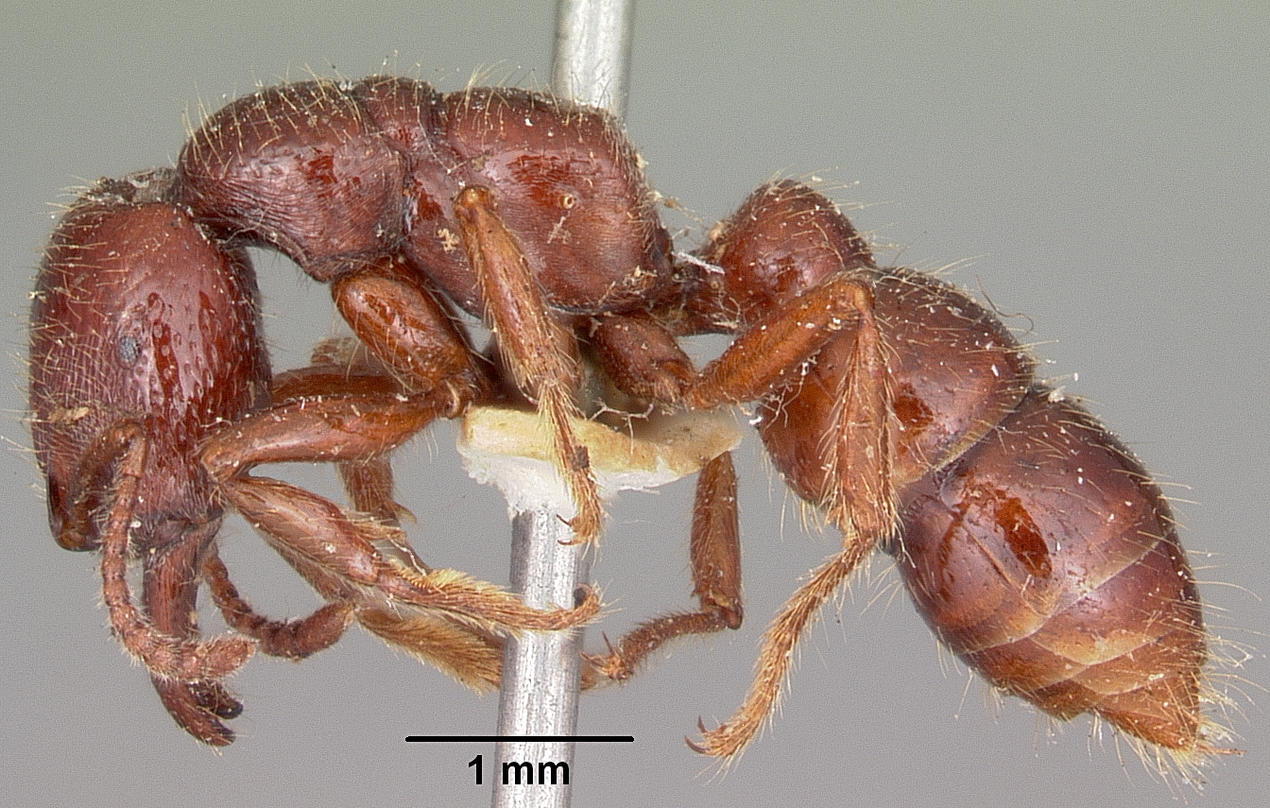 Profile view of ant Amblyopone australis specimen casent0104575.